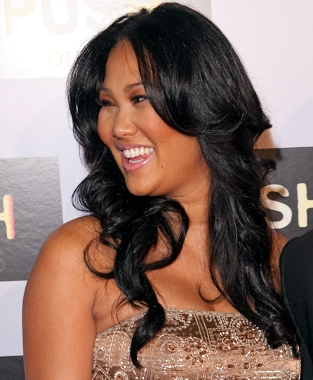 "LOS ANGELES - JANUARY 29, 2009: Kimora Lee Simmons arrive at the premiere of "Push", Mann Theater, Westwood." Cropped by User:Mononomic for Kimora Lee Simmons